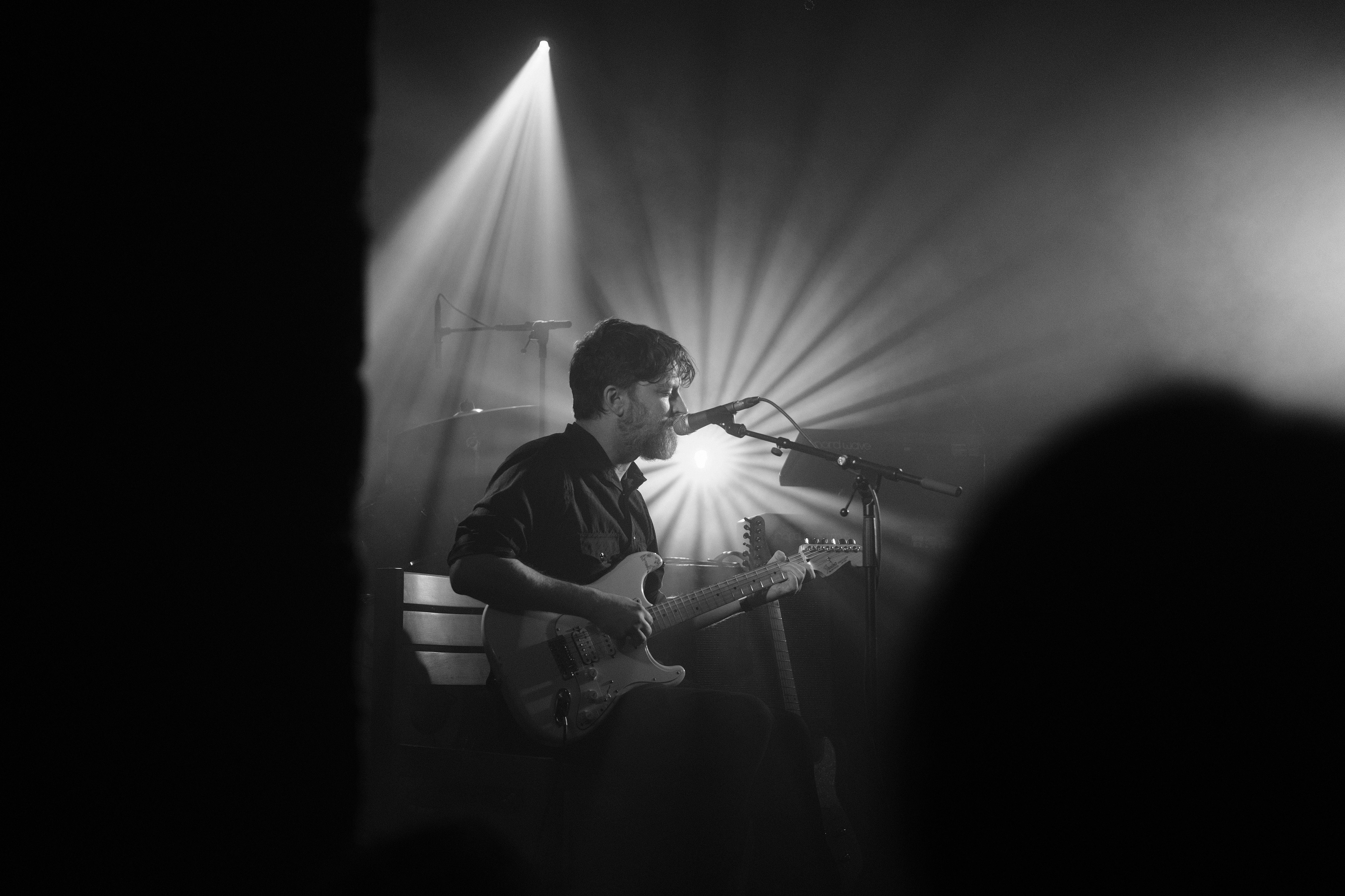 Six Organs of Admittance (Ben Chasny) performing at Point Ephémère, Paris, France.